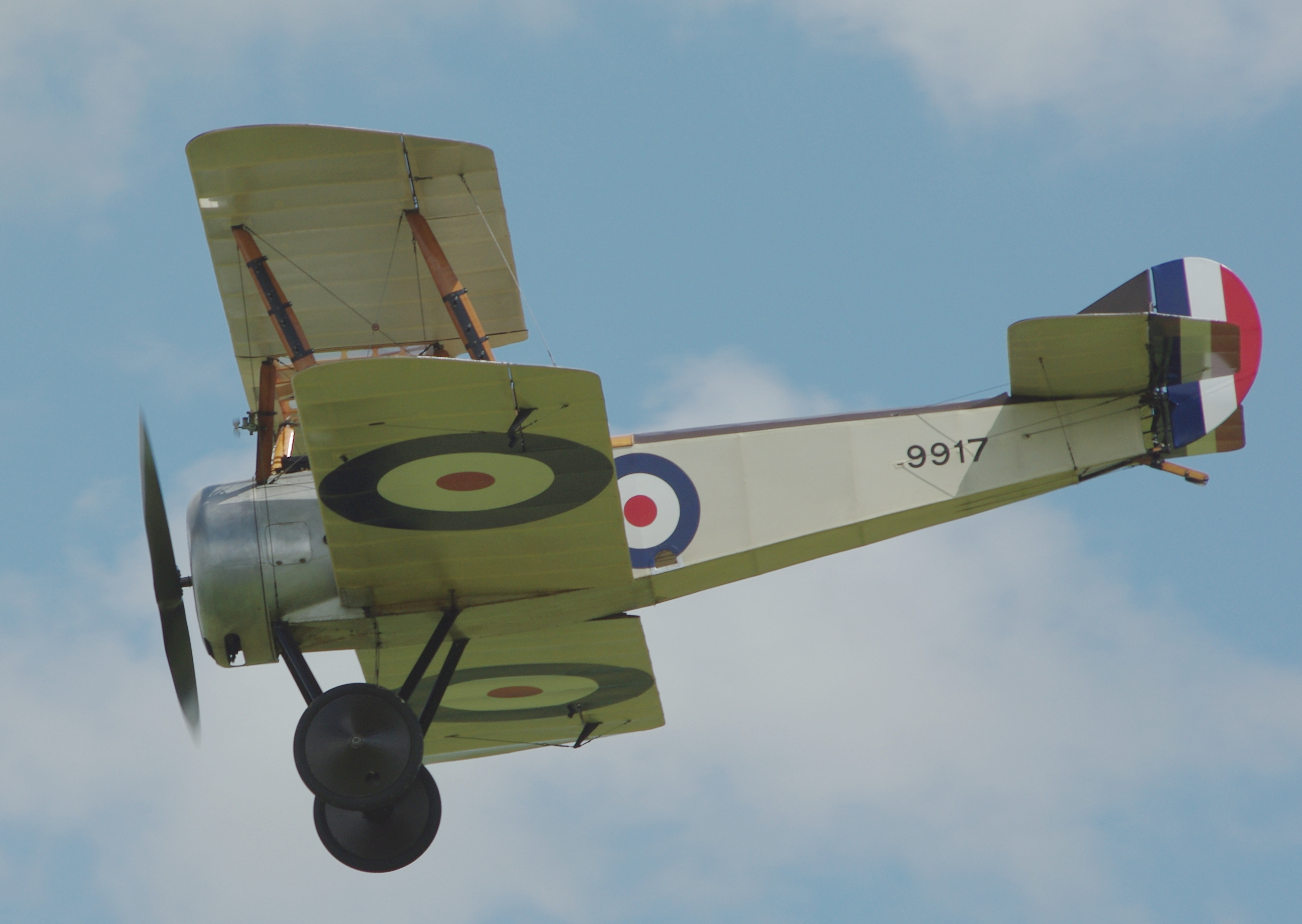 The Shuttleworth Collection's Sopwith Pup, originally built as the two seat Dove version. It is flying at Old Warden's Summer Show 2009. Currently carrying serial 9917, it has been on the civil register as G-EBKY since 1920. It has in the past been painted as N6181.